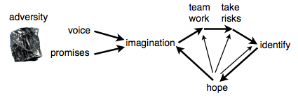 hope construct- how to lead change or shape culture in their community or organization